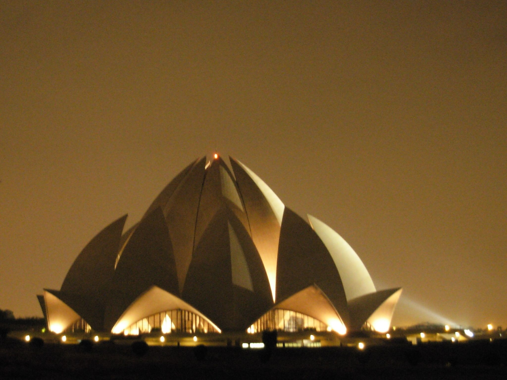 The Lotus Temple at night close to lights off time, Delhi, India